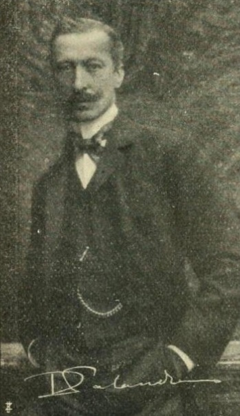 Portrait of the Italian sculptor David Calandra. In "Illustri italiani contemporanei" by Onorato Roux (Firenze, 1908)